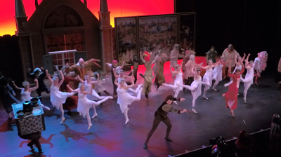 A scene from Hieronymus, A Musical Fantasy by T. E. Breitenbach